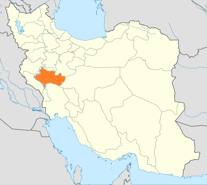 Locator map of Iran